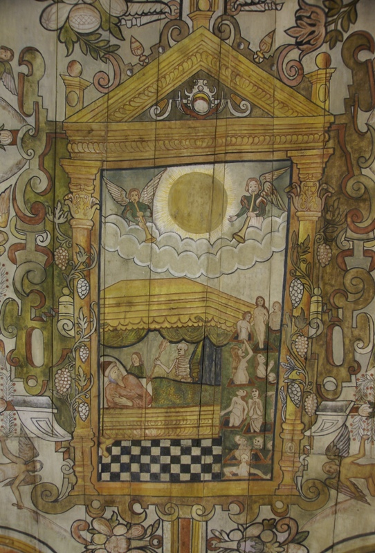 St Mary's Church, Grandtully, Perth and Kinross, Scotland - central panel: Last Judgement